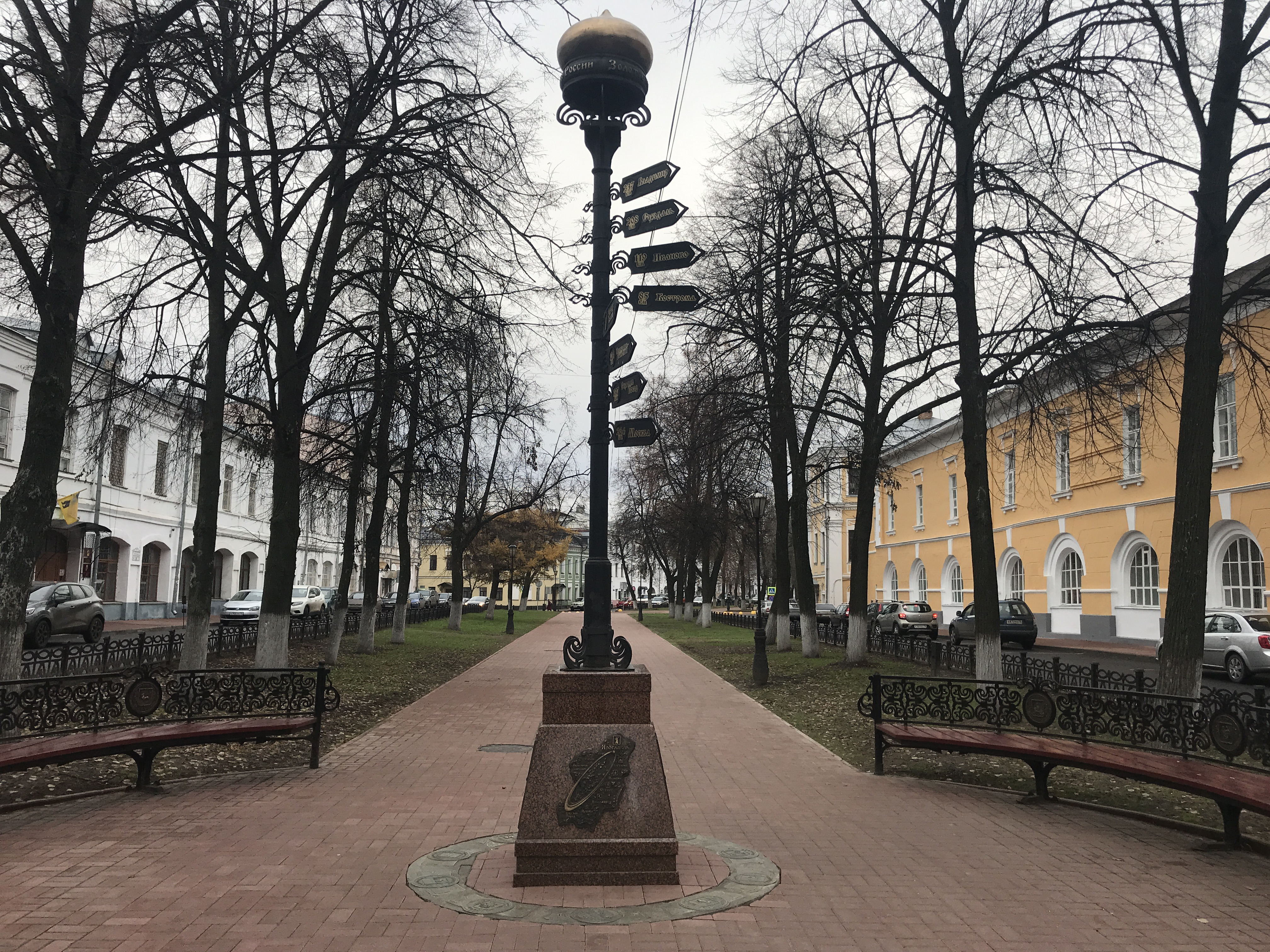 Kilometre Zero Golden Ring Of Russia, Yaroslavl, Russia